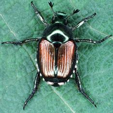 The Japanese beetle adult--an attractive pest.